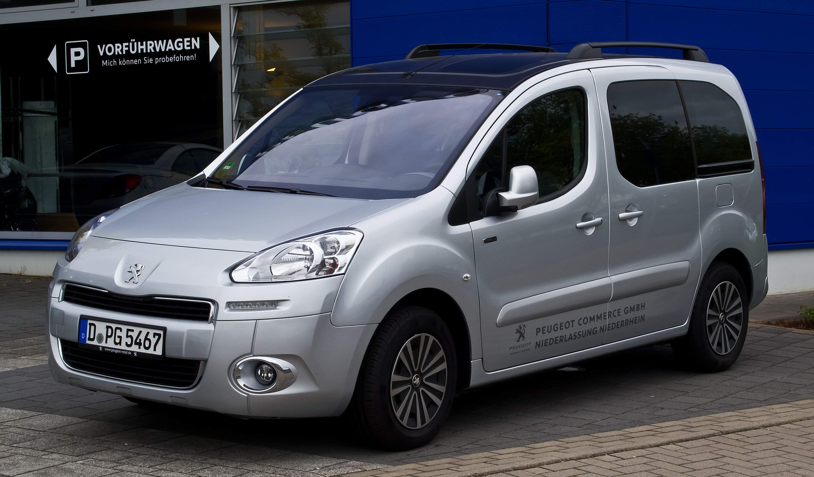 Peugeot Partner Tepee HDi 115 Family (II, Facelift)